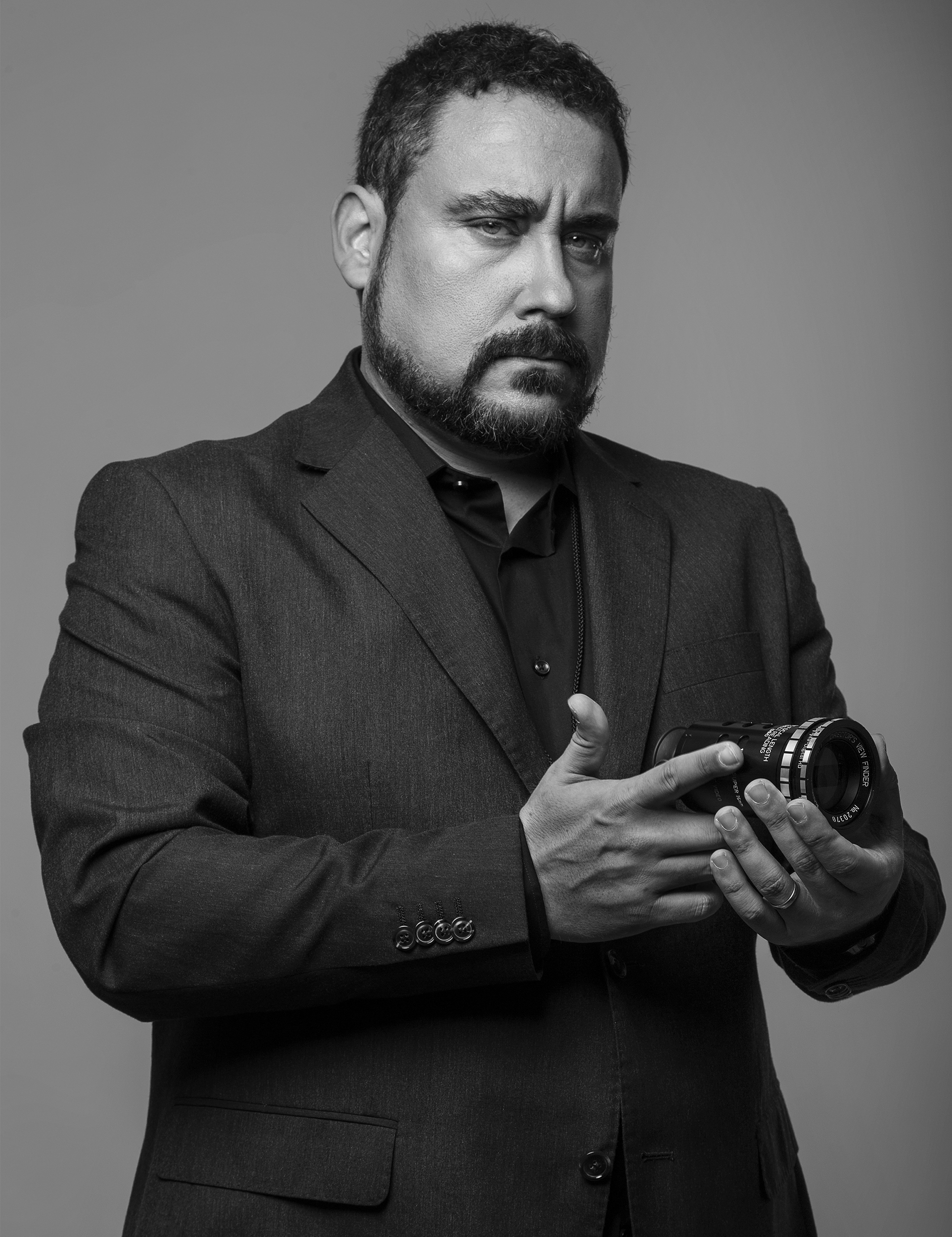 Portrait of Victor Perez in 2017 (by Giulio Alesse)